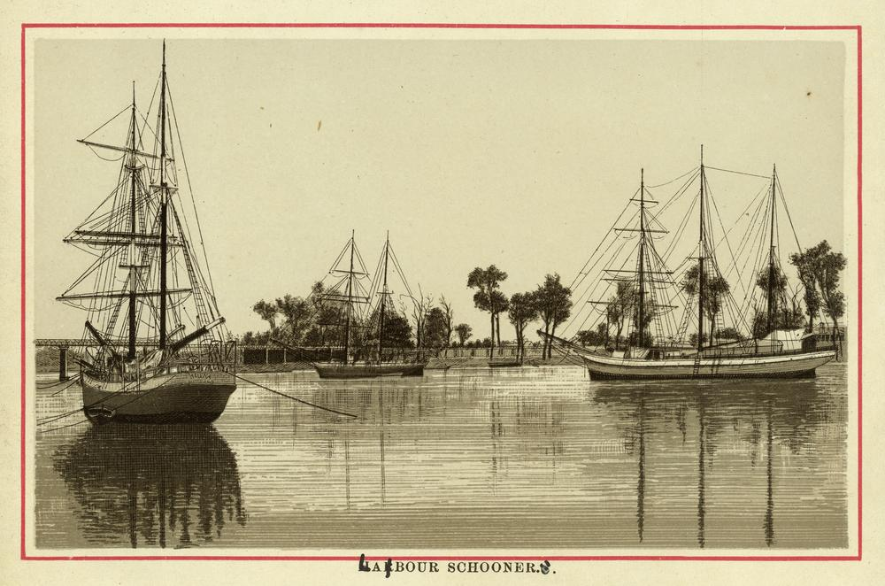 Sailing ships laying at anchor in the harbour, Bundaberg, ca. 1894 Bundaberg is situated at the southern tip of the Great Barrier Reef. Four hours drive north from Brisbane, Bundaberg is located in the heart of a rich sugar and horticultural belt. Bundaberg is identified with the locally manufactured Austoft Cane harvesters and famous Bundaberg Rum.